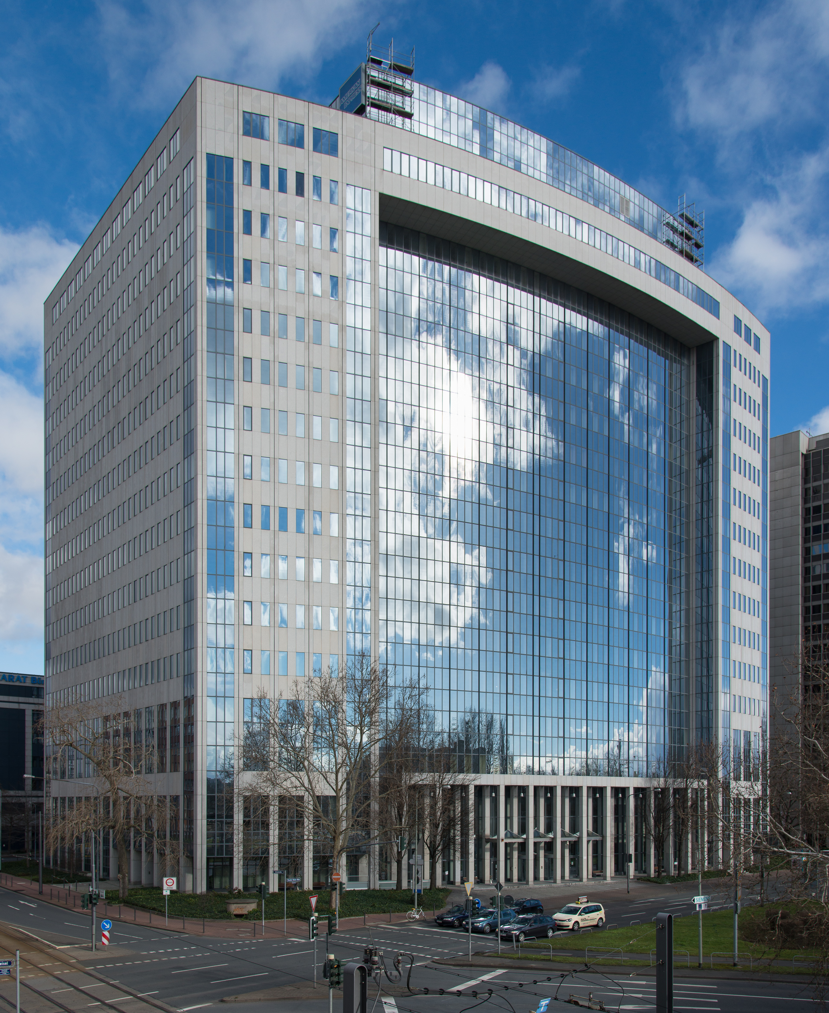 Frankfurt am Main, Theodor-Heuss-Allee 112, American Express Building (as seen from South). 75 meter tall office building (February 2014).